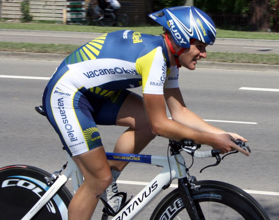 Bobbie Traksel at the 2009 Eneco Tour prologue